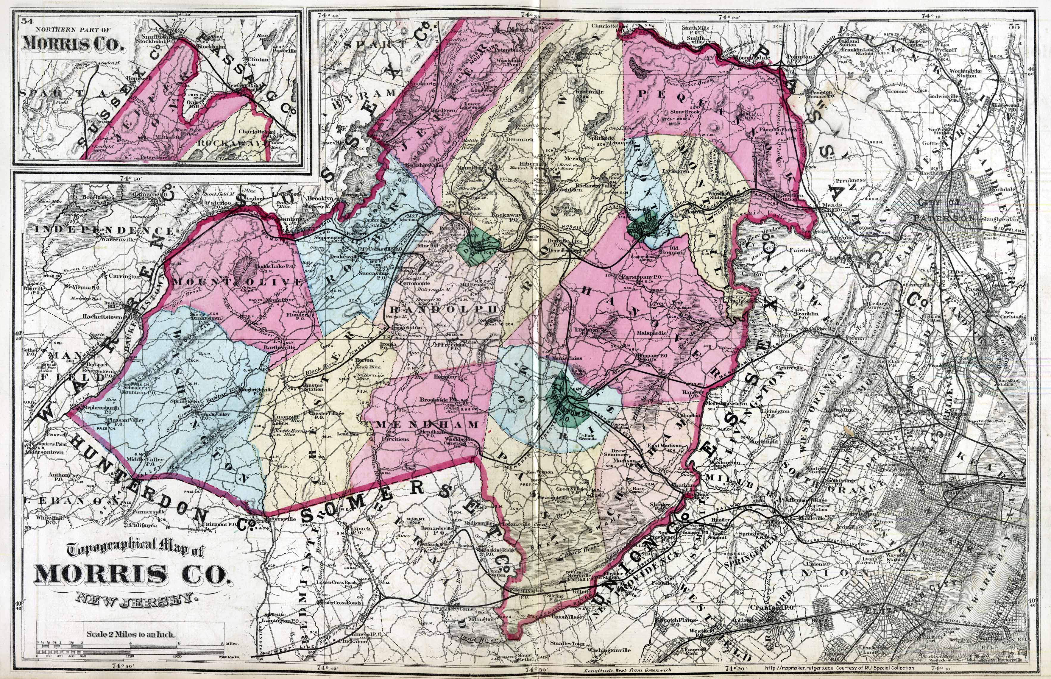 Morris County (New Jersey) in 1872